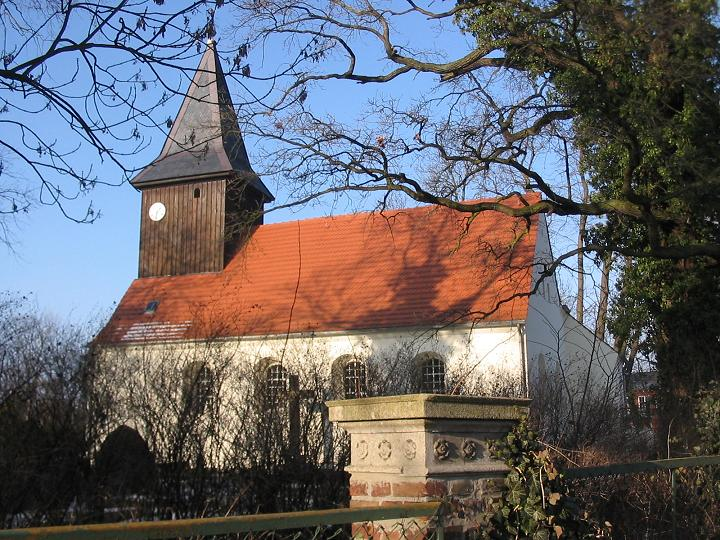 Church Genshagen, Brandenburg, Germany